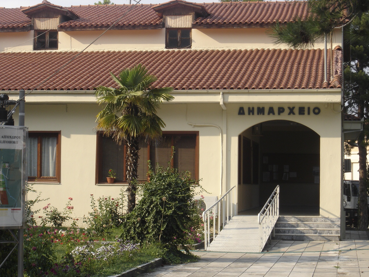 The city hall of Dimos Litohorou, in Litohoro.